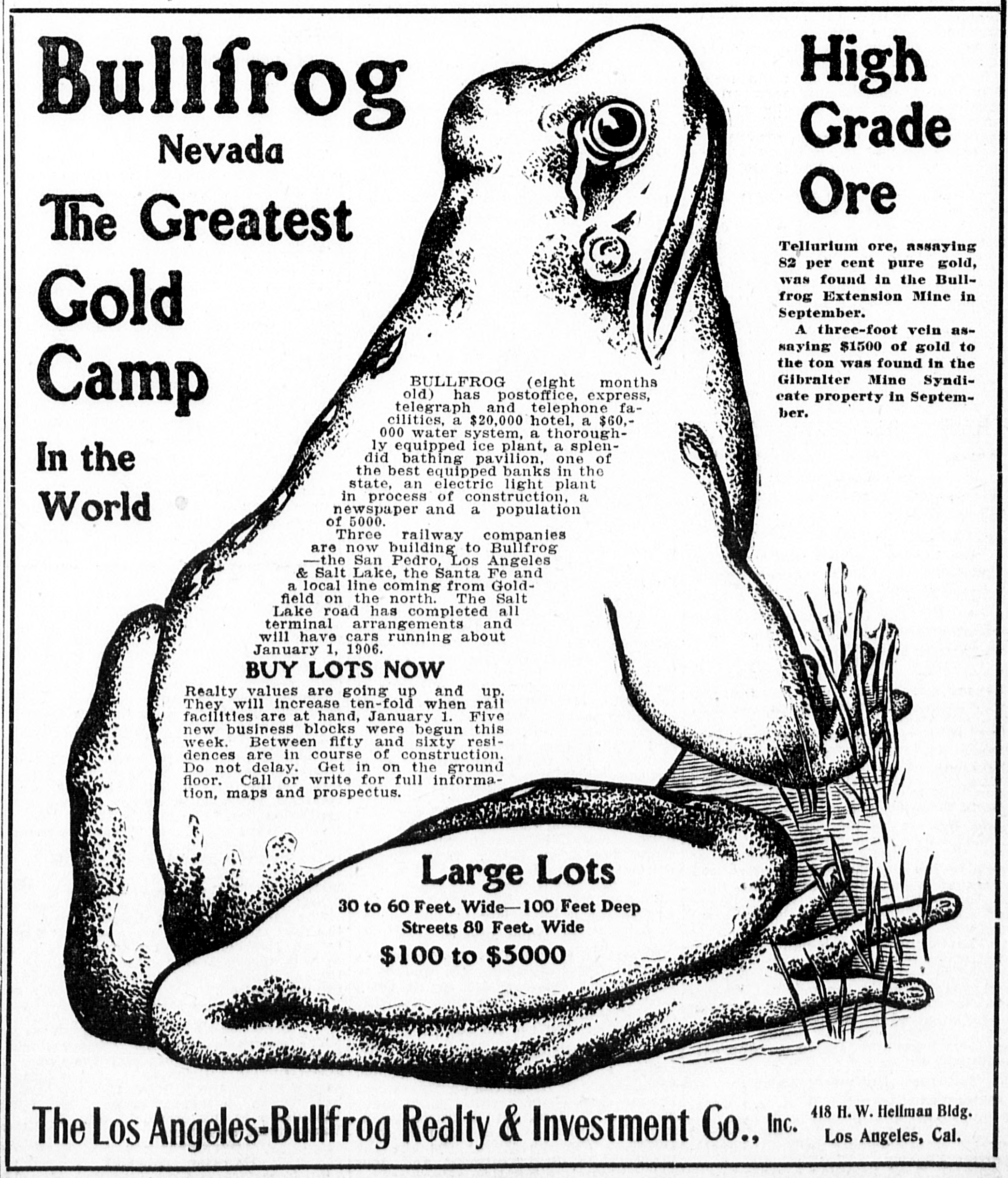 Advertisement by the Los Angeles-Bullfrog Realty & Investment Co. for lots in Bullfrog, Nevada